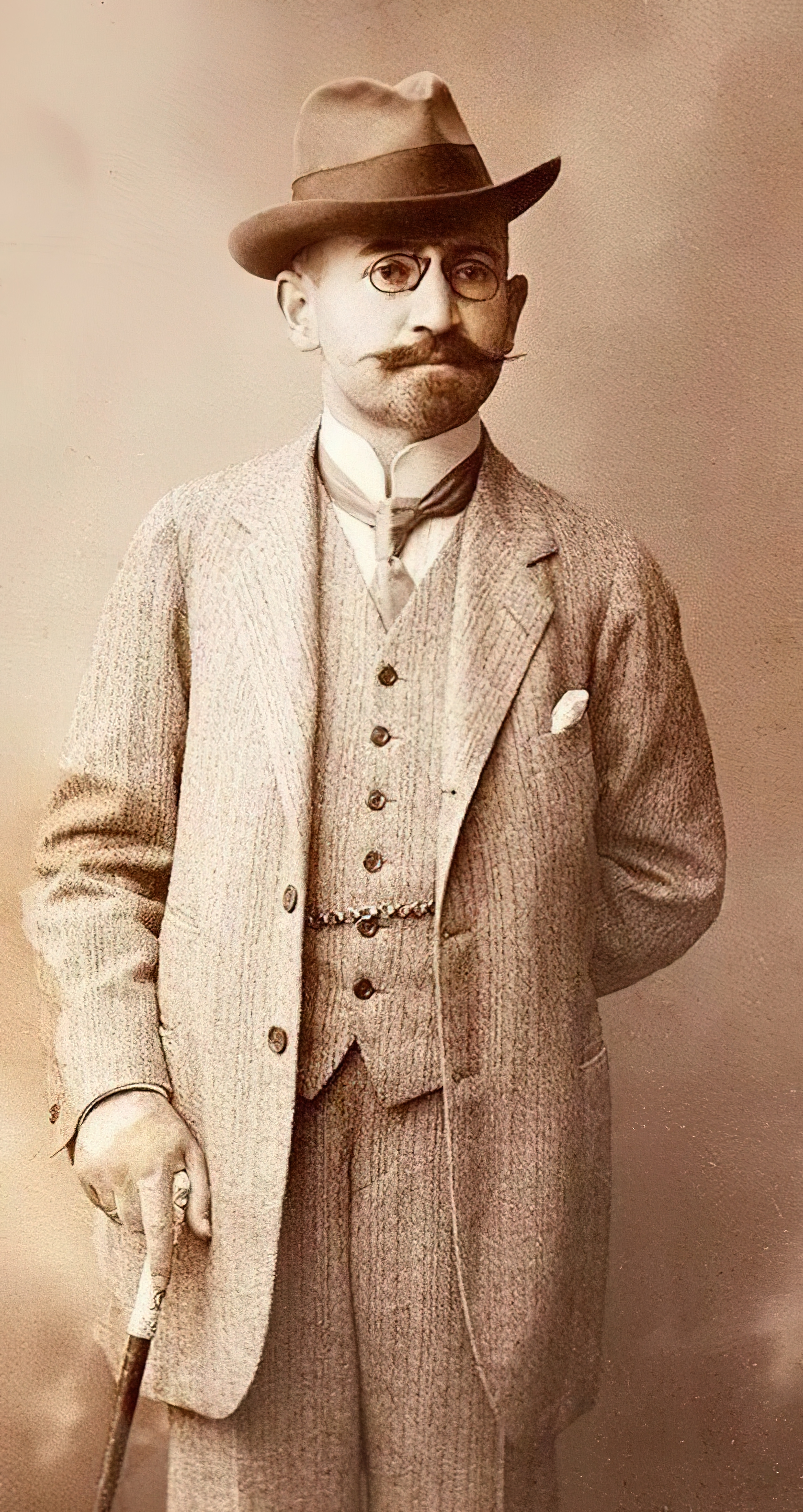 Ալեքսանդր Սպենդիարյան Александр Спендиарян Alexander Spendiaryan